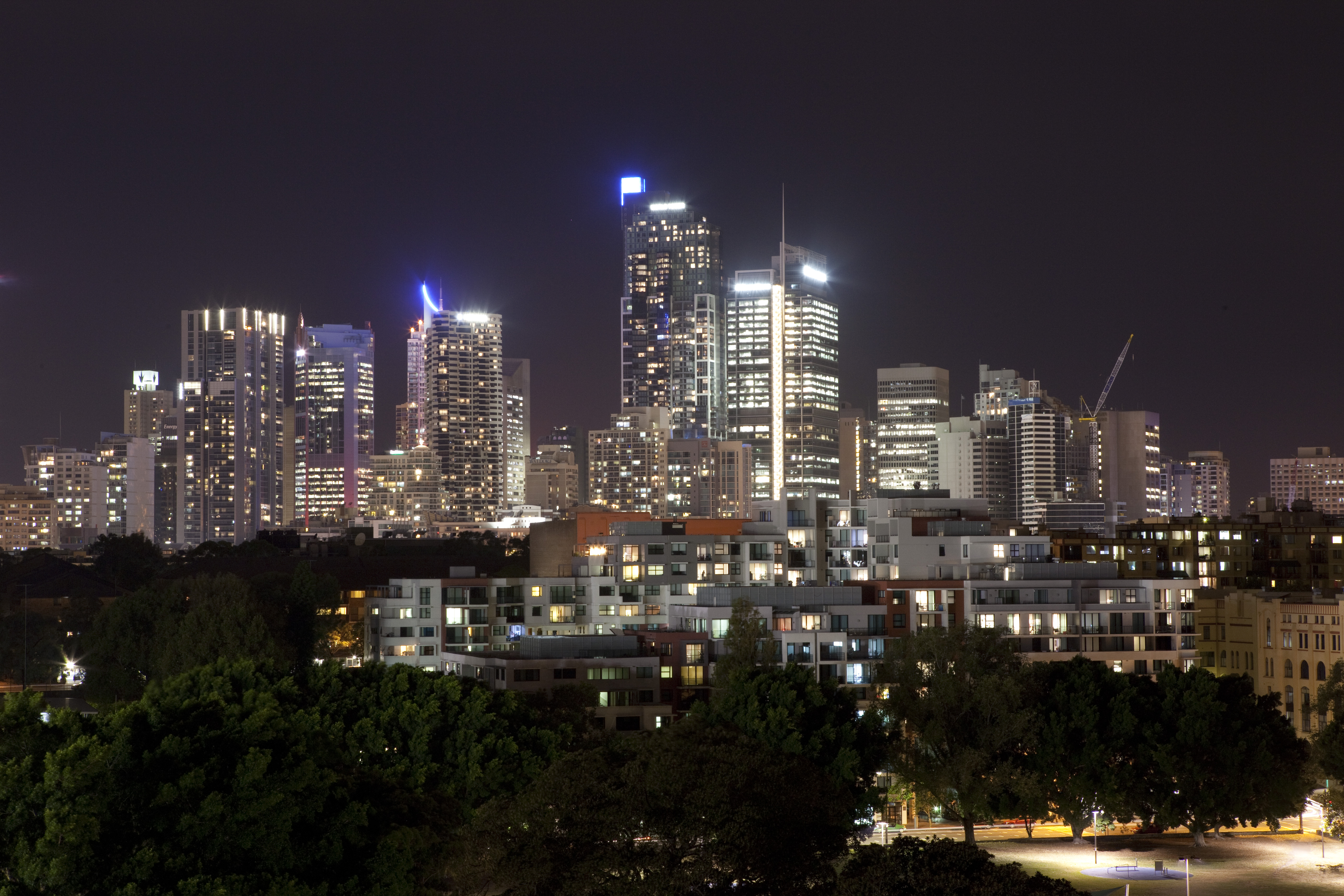 View of Sydney at night from Glebe